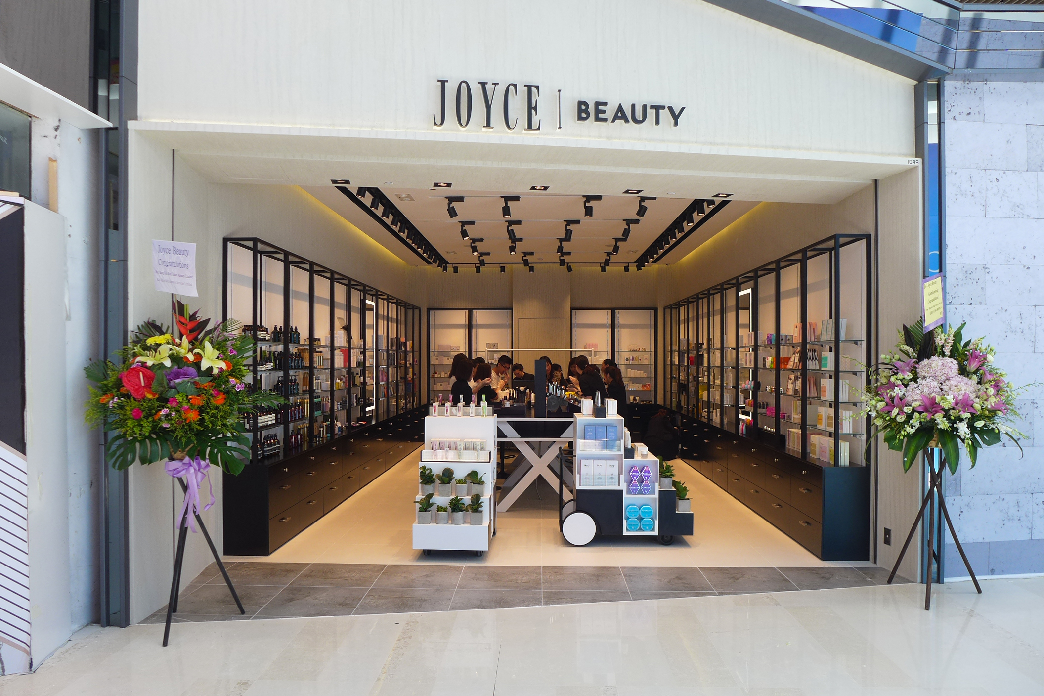 Joyce Beauty in YOHO Mall